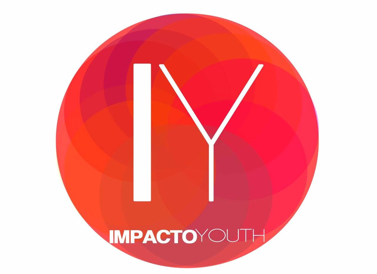 Youth Group Logo